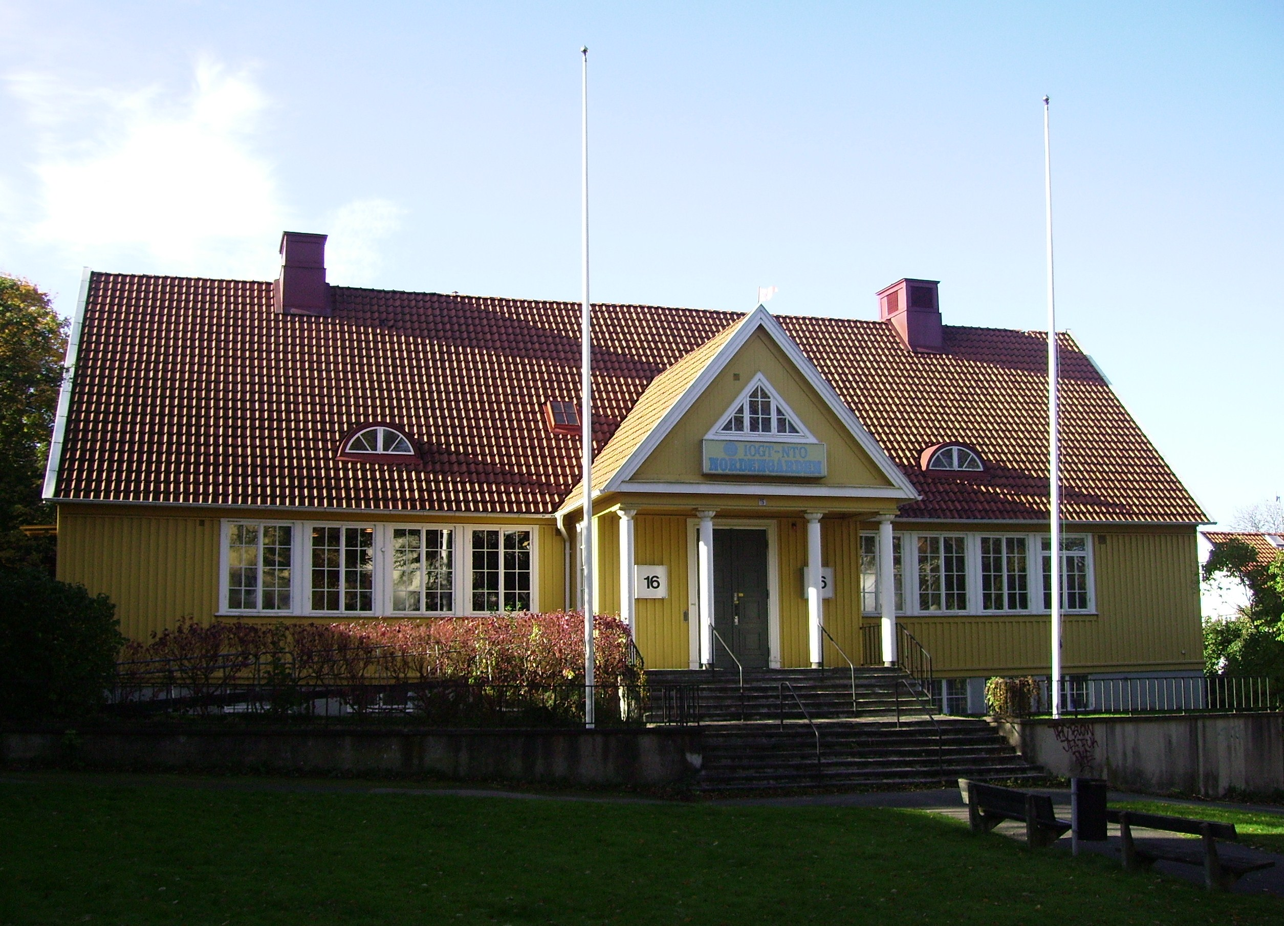 Picture of IOGT-NTO building in Bagaregården in Göteborg. Ursprungligen församlingshem. Byggnadsår 1931. Arkitekt Johan Jarlén